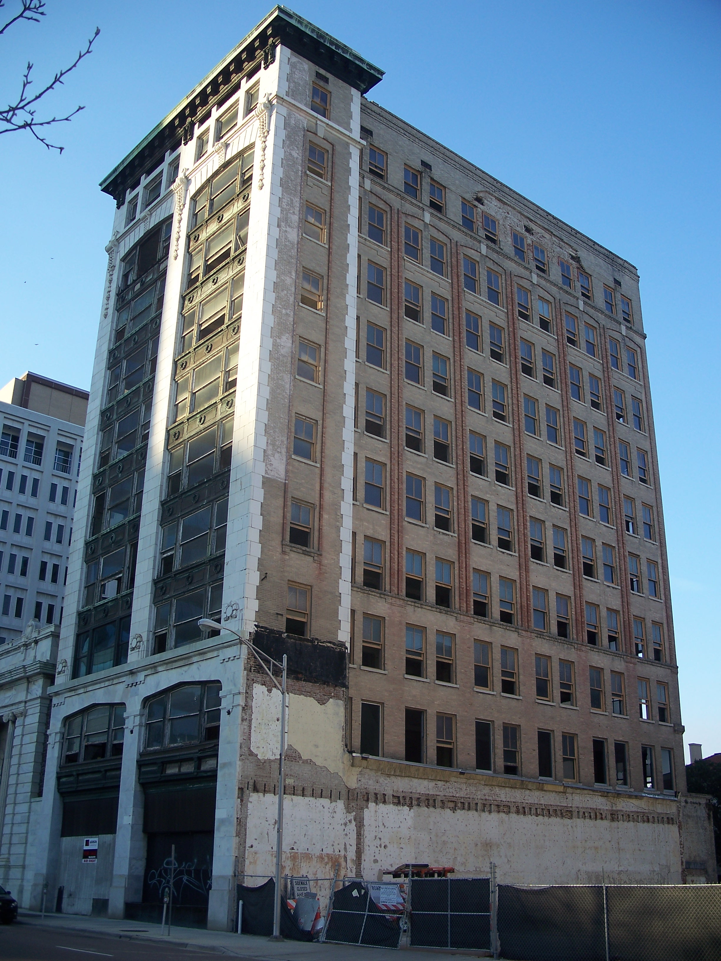 Jacksonville, Florida: Bisbee Building, designed by architect Henry John Klutho